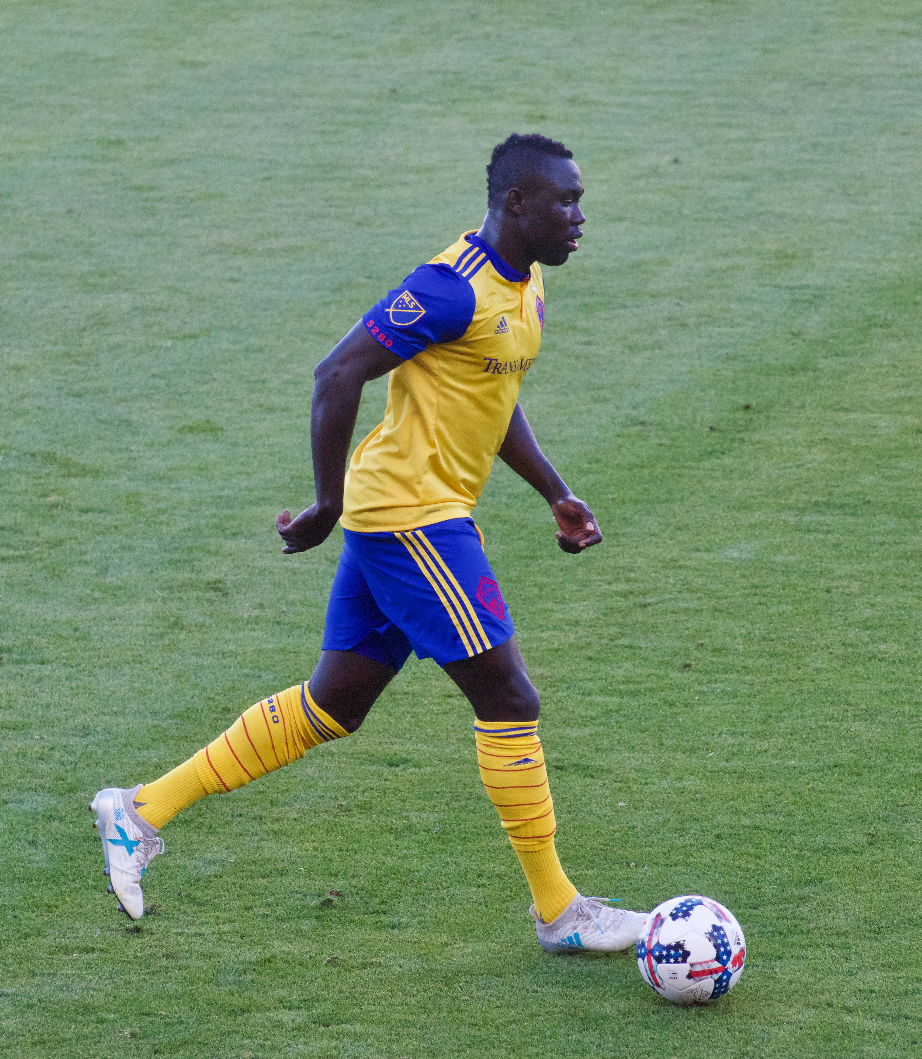 Bismark Boateng playing for Colorado Rapids at Avaya Stadium, 29 July 2017.